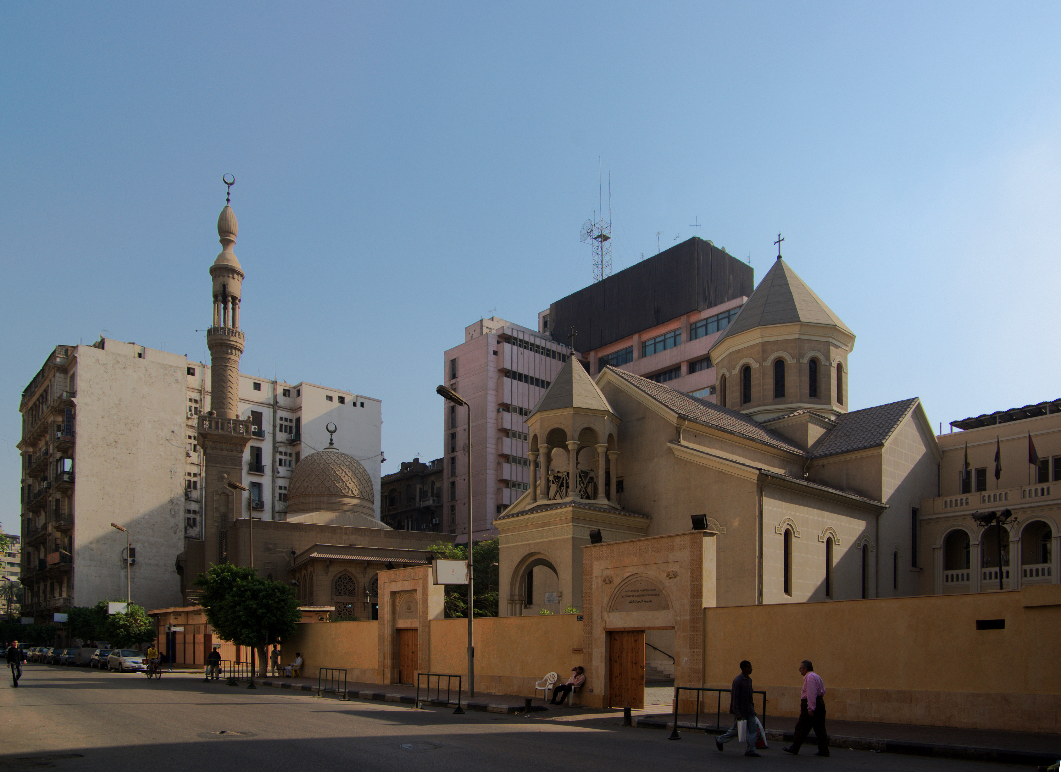 Cairo, Armenian catholic partiarchat